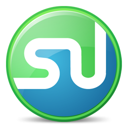 Stumble